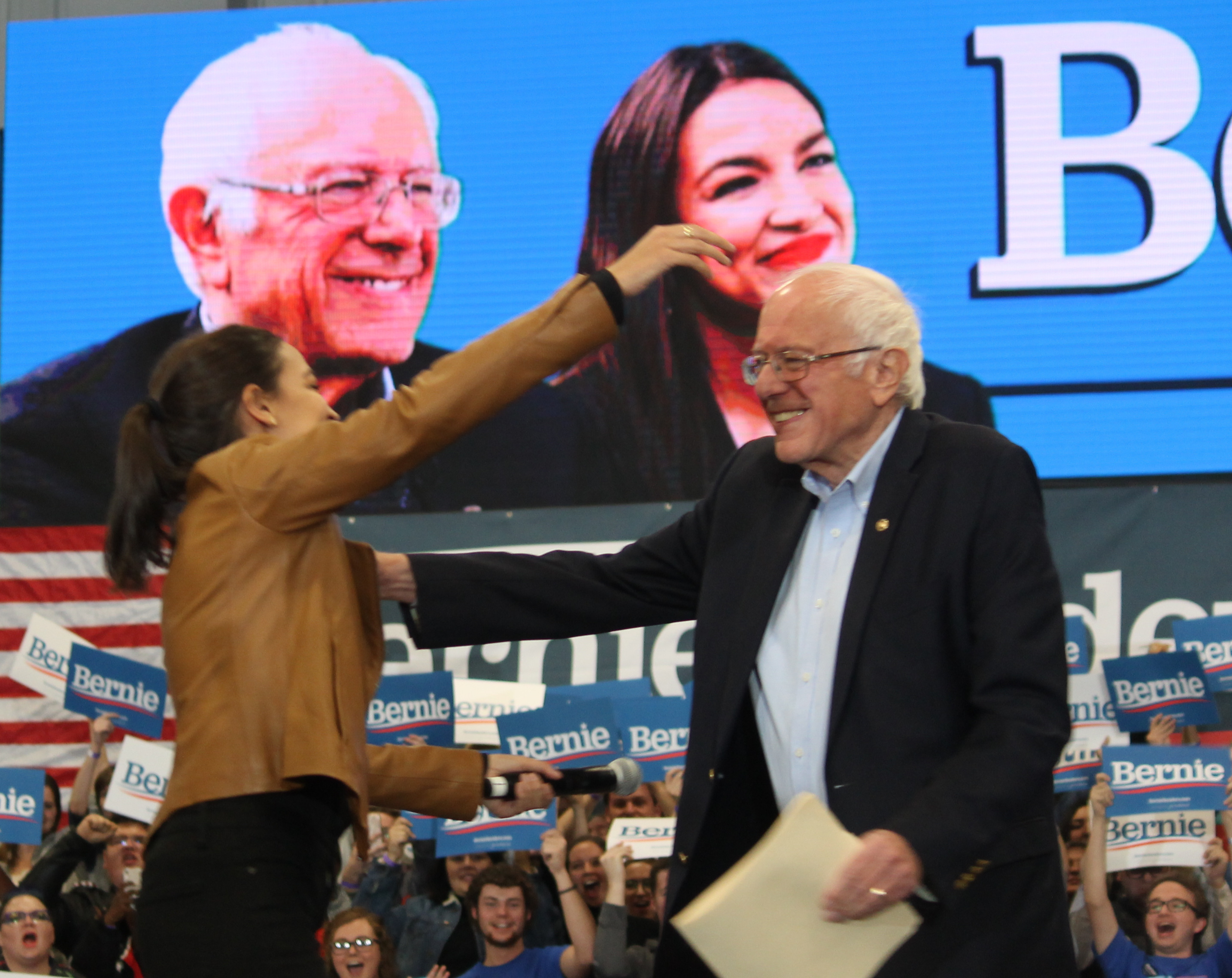 Sen. Bernie Sanders and Rep. Alexandria Ocasio-Cortez at a rally in Council Bluffs, Iowa. J. if used elsewhere.